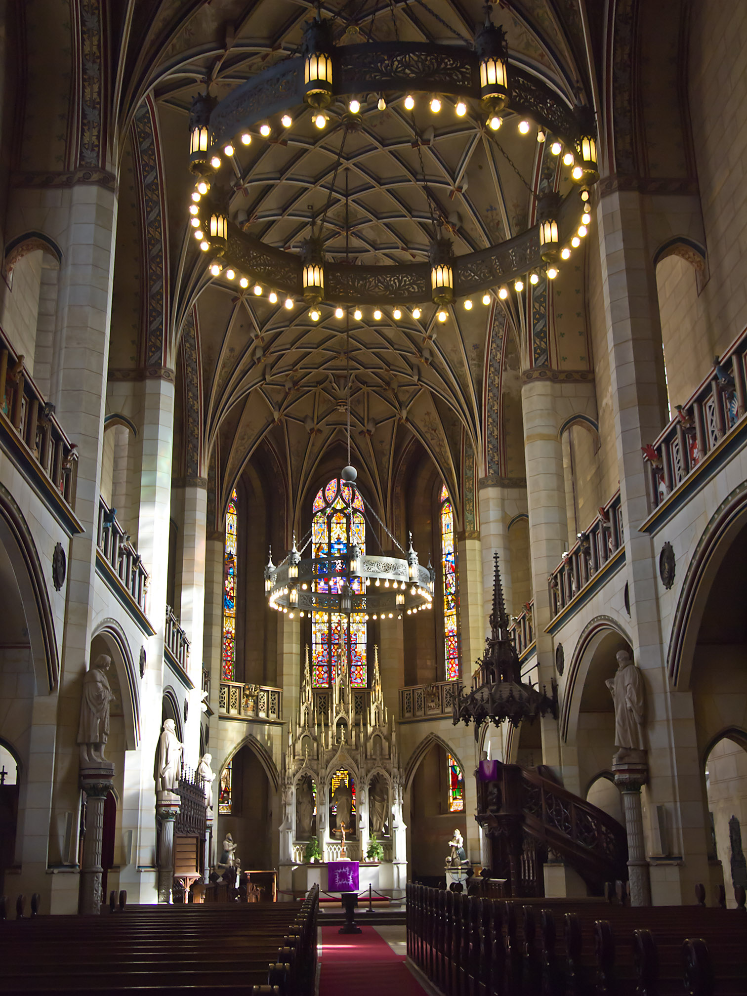 Castle Church in Wittenberg, Saxony-Anhalt, Germany